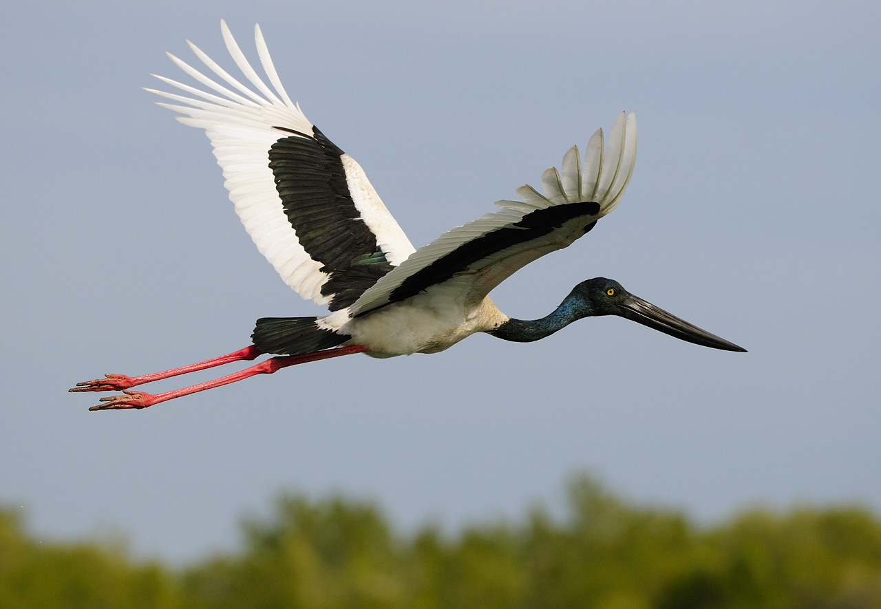 Female Black-necked Stork in flight, Ephippiorhynchus asiaticus. Photographed at the McArthur River in the Northern Territory of Australia. Locally known as a Jabiru.